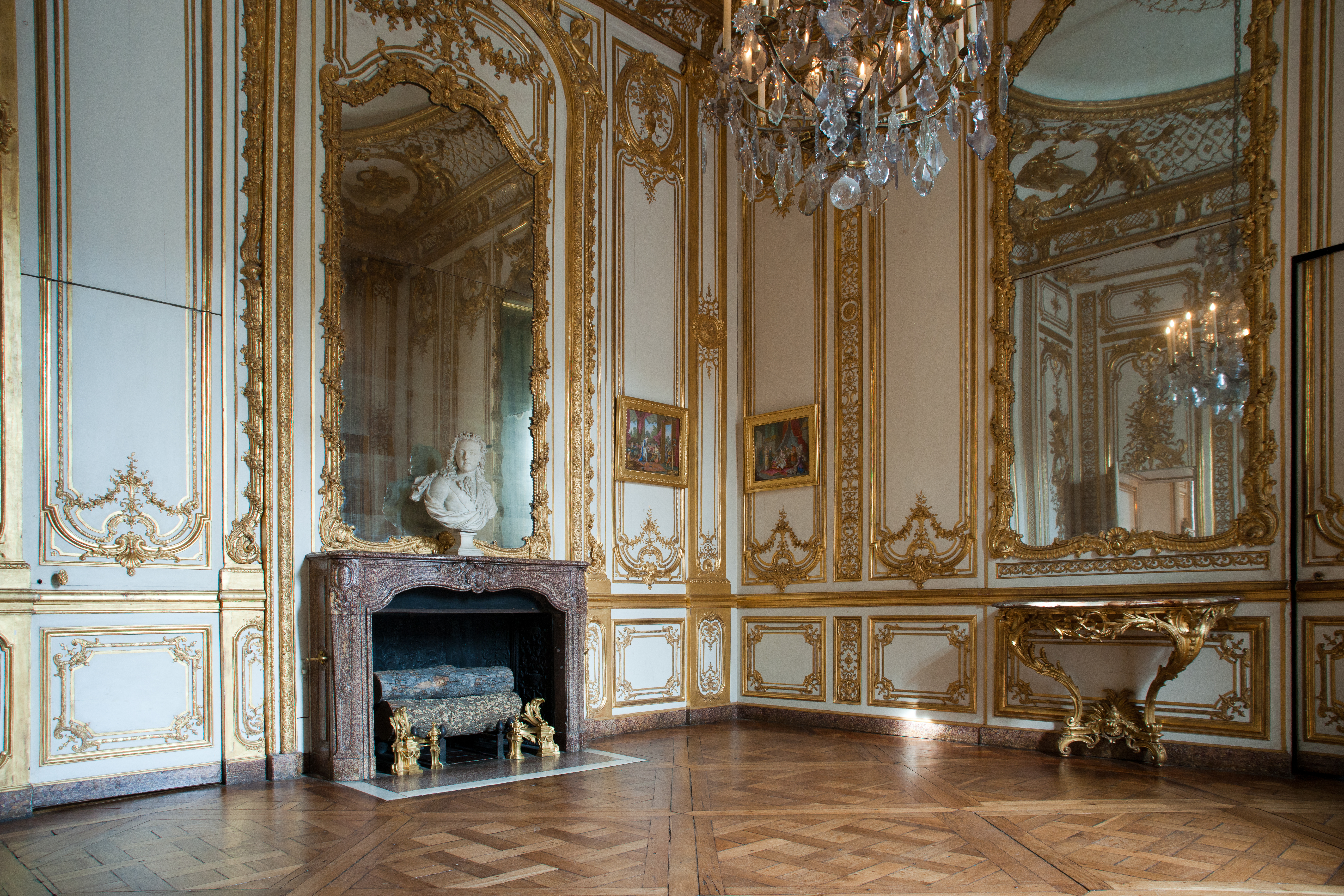 View of the Pièce de la vaisselle d'or ("Golden Dinnerware Room") in the Petit appartement du roi in the Palace of Versailles